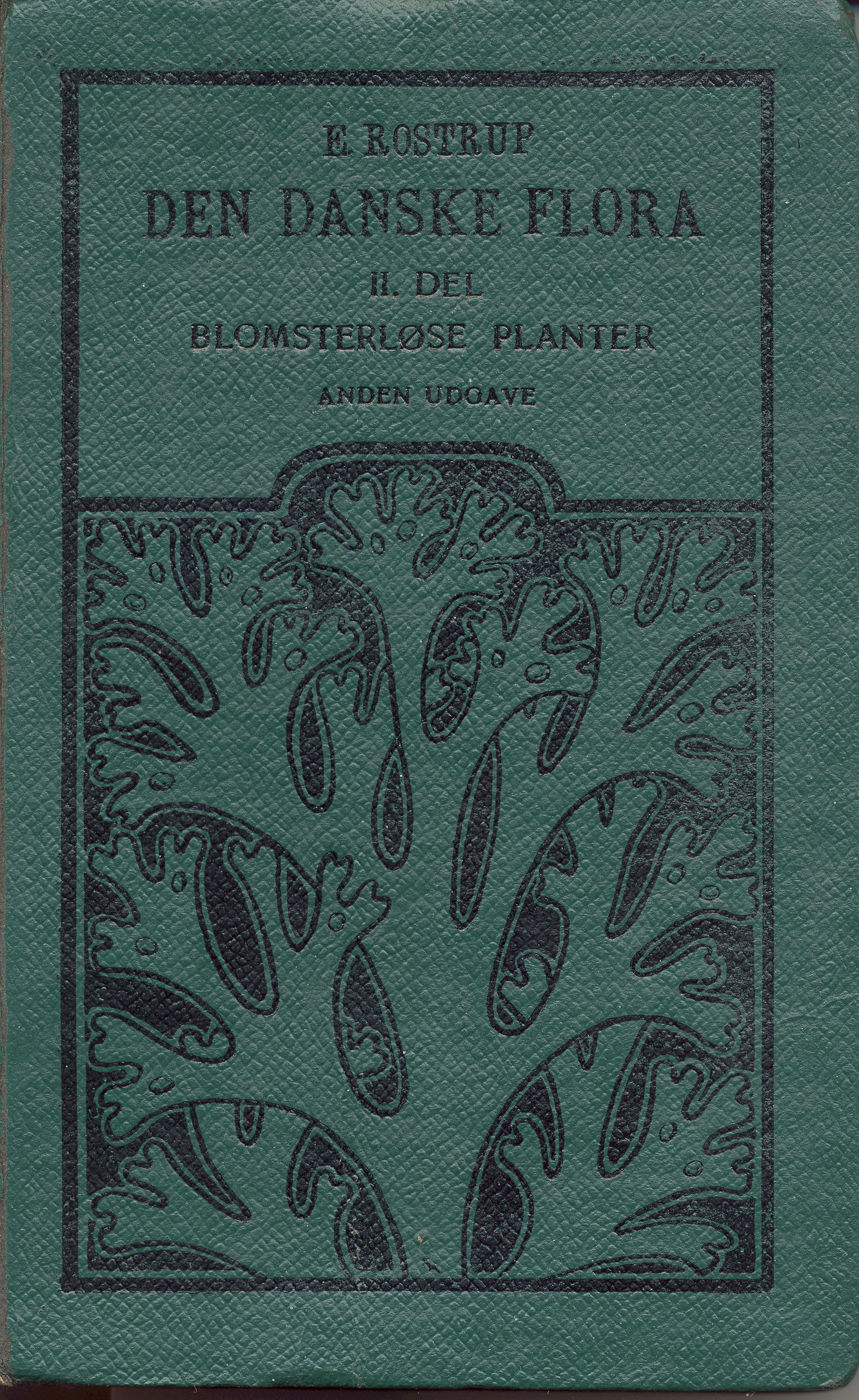 scan of front cover of "Rostrup, E.: Den Danske Flora, II Blomsterløse Planter", 2. print 1925